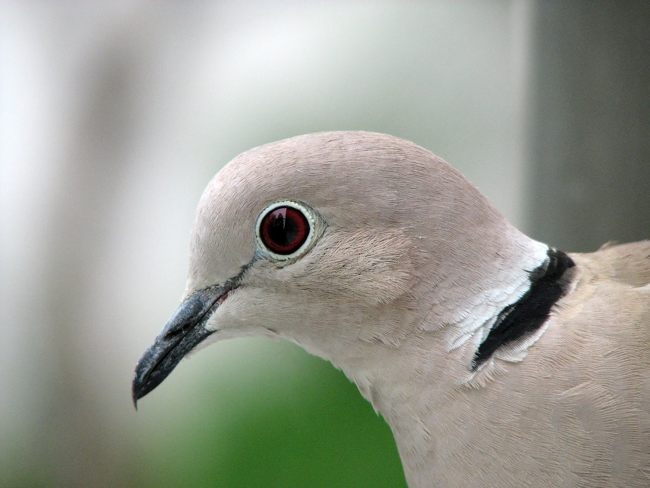 Collared Dove; photograph of upper body profiled.